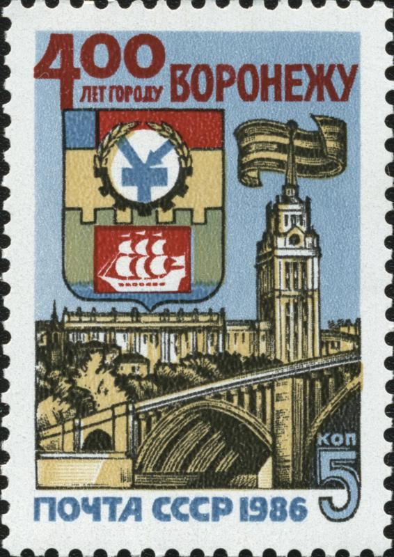 A USSR stamp, 400th Anniversary of Voronezh. Date of issue: 20th February 1986. Designer: A. Kalashnikov Michel catalogue number: 5579. 5 K. multicoloured. View of city and coat of arms of Voronezh.